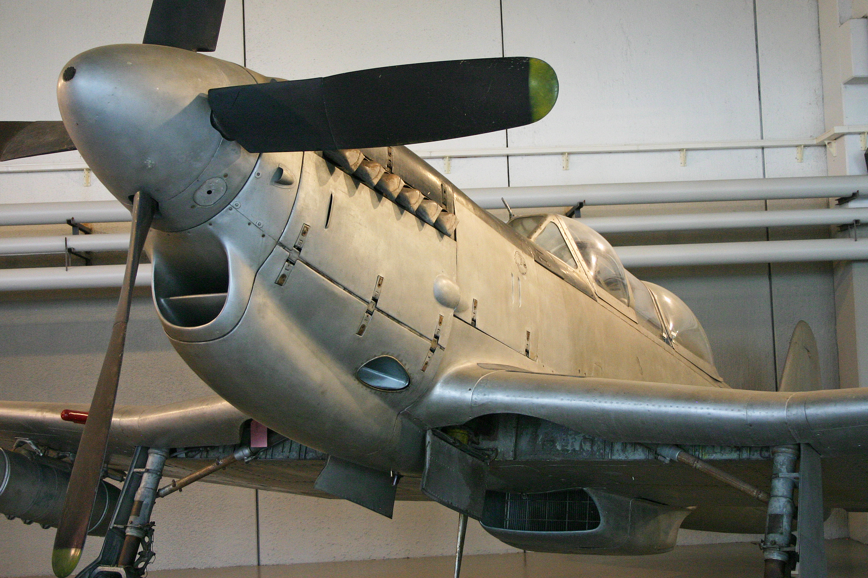 Displayed under the balcony in Hangar SKEMA. msn 61